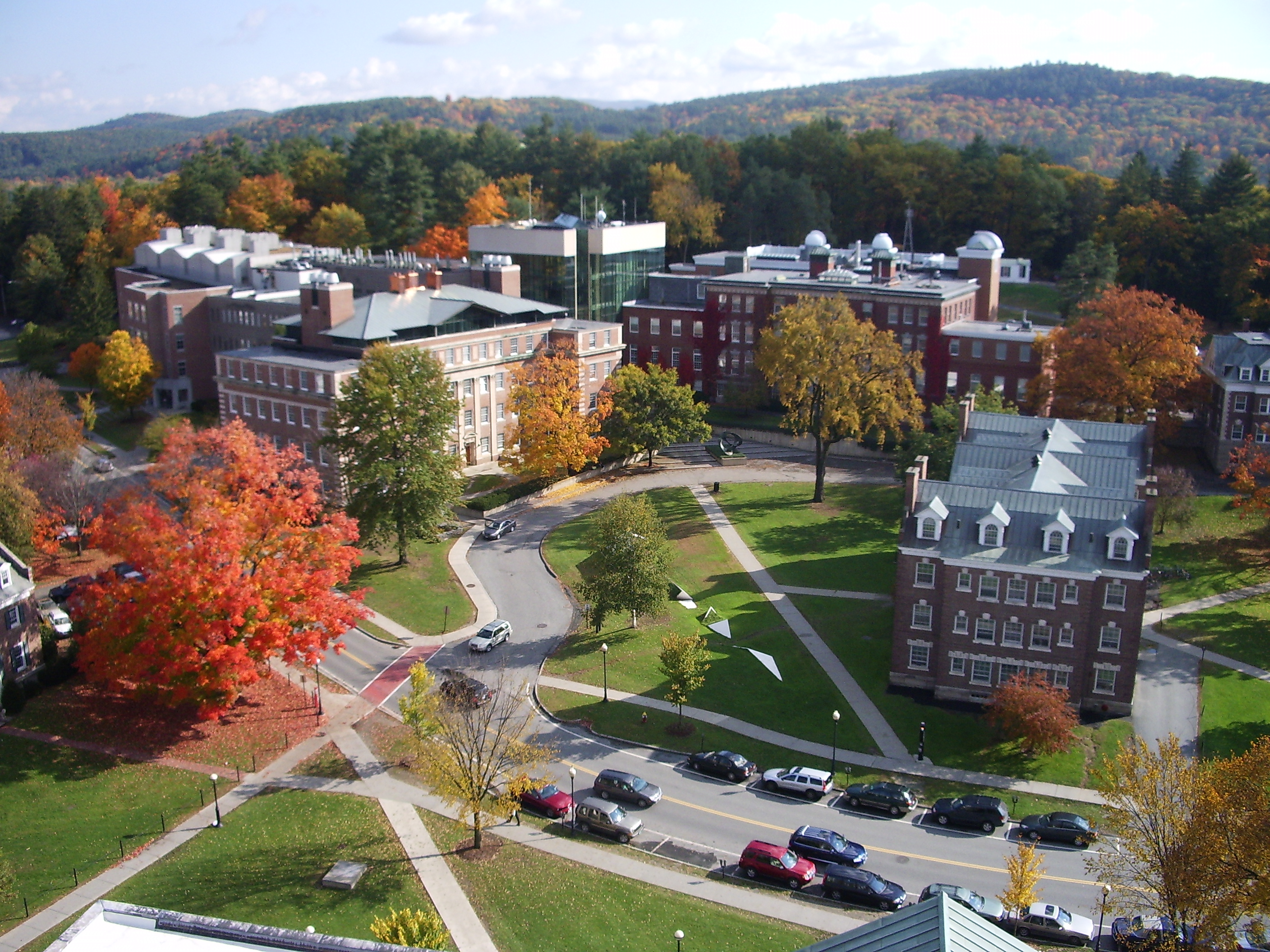 A photo of the Sherman Fairchild Sciences complex at Dartmouth College in Hanover, New Hampshire, taken from the tower of Baker tower.